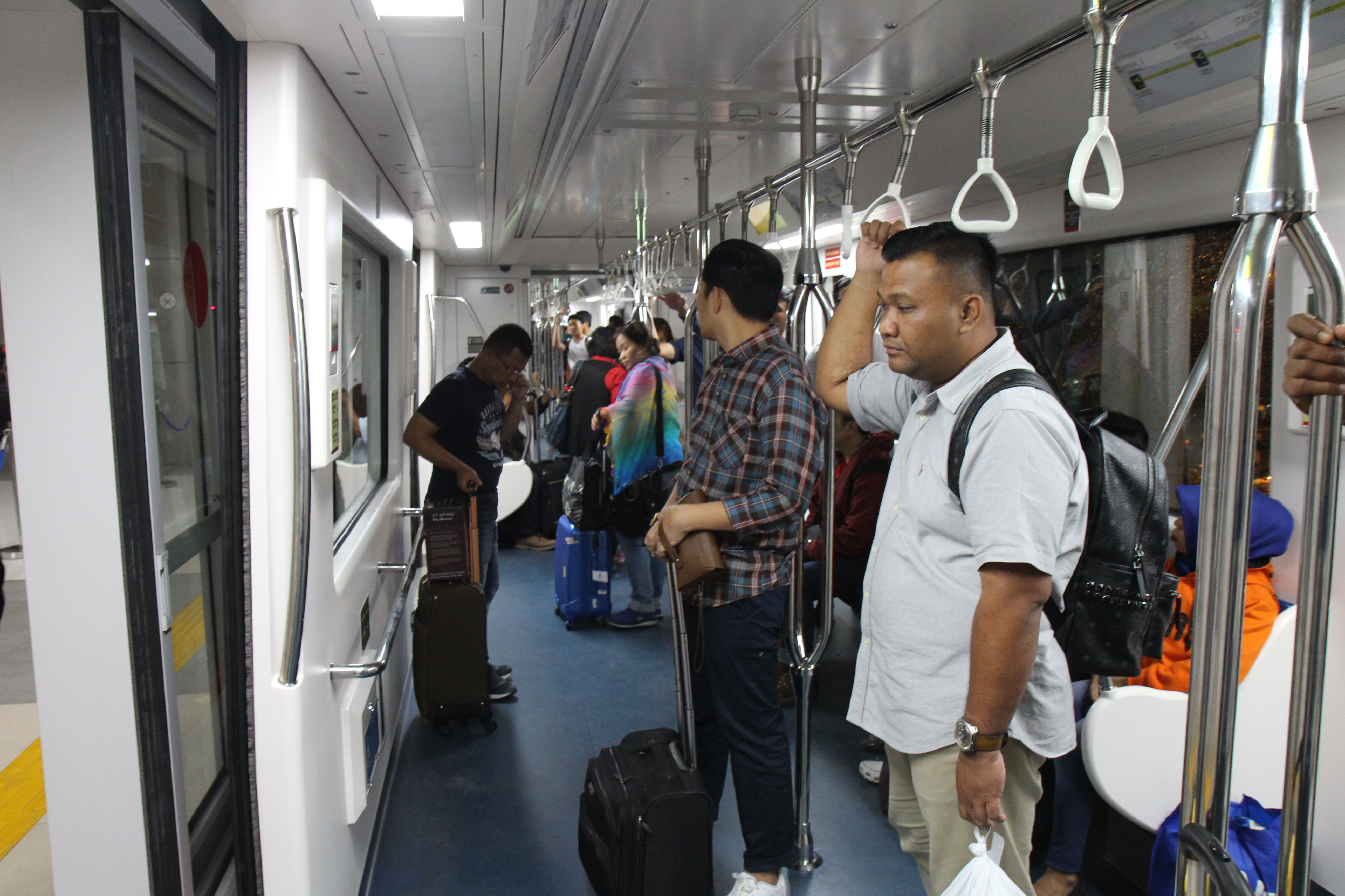 Soekarno–Hatta Airport Skytrain interior and passengers